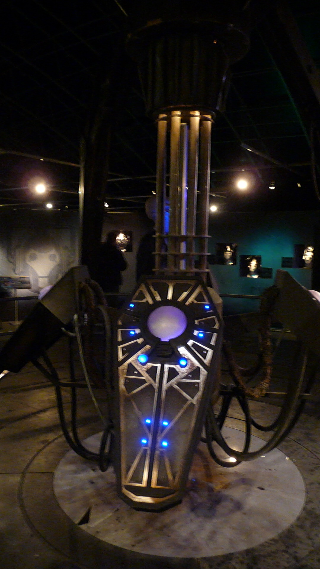 Dr Who Experience, Cardiff Doctor Who Experience